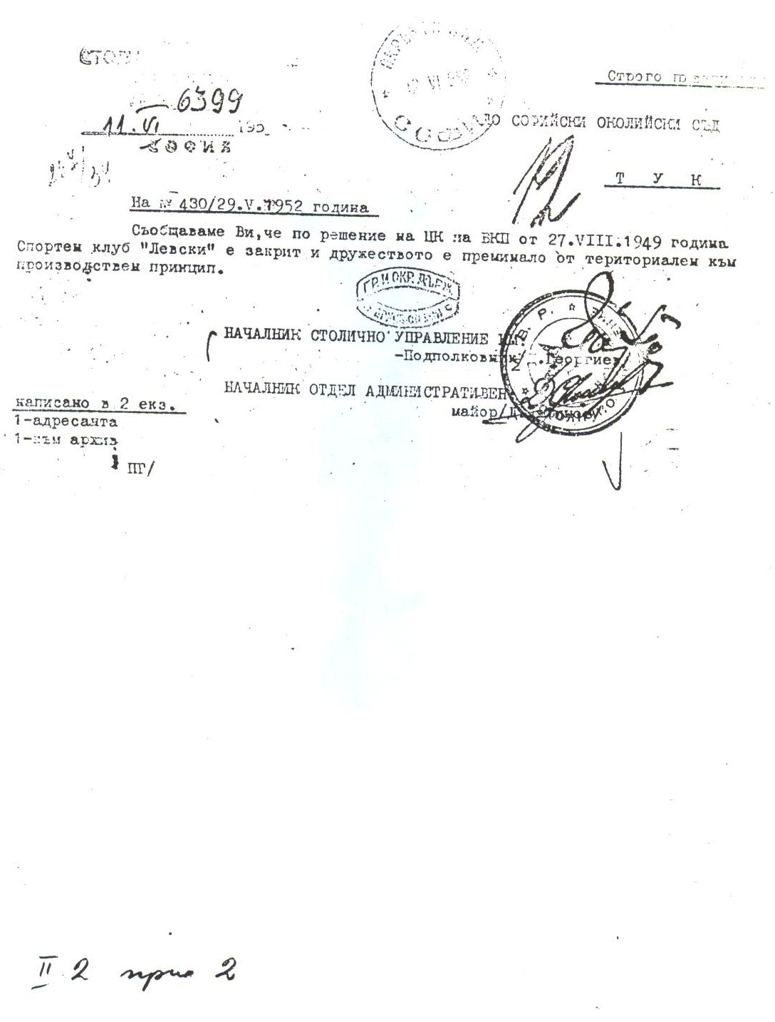 The document, which the BCP Central Committee closes Levski.